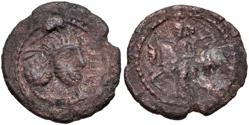 Coin of Ardashir of Merv. He was a Sasanian prince, who ruled Marv from ca. 240 to 262. He was either a brother or son of the Sasanian king Ardashir I (r. 224-242), who had installed him as the ruler of Marv, which was the outpost of his empire in the north-east.